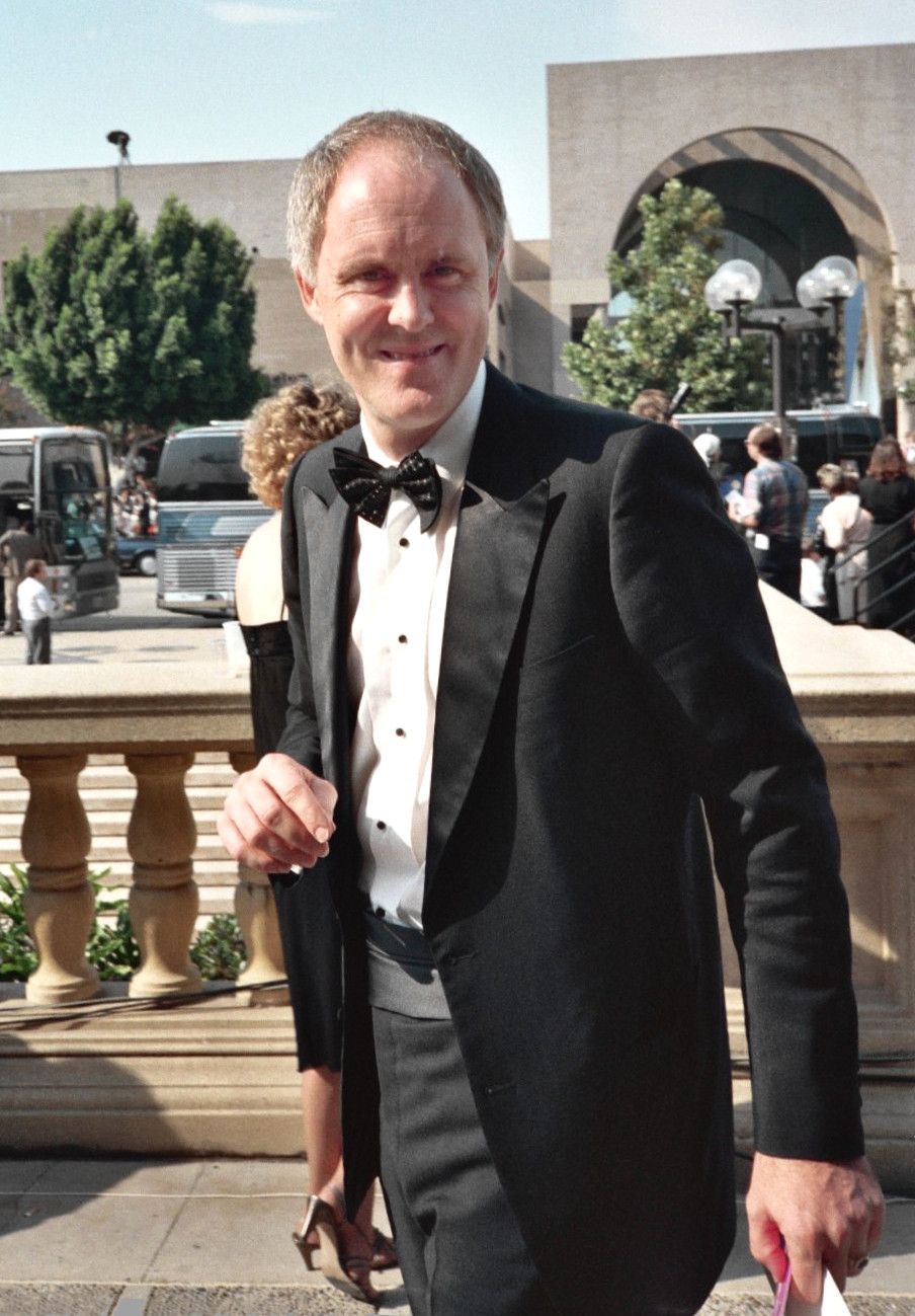 1988 Emmy Awards NOTE: Permission granted to copy, publish, broadcast or post any of my photos, but please credit "photo by Alan Light" if you can. Thanks. Scanned from the original 35MM film negative.